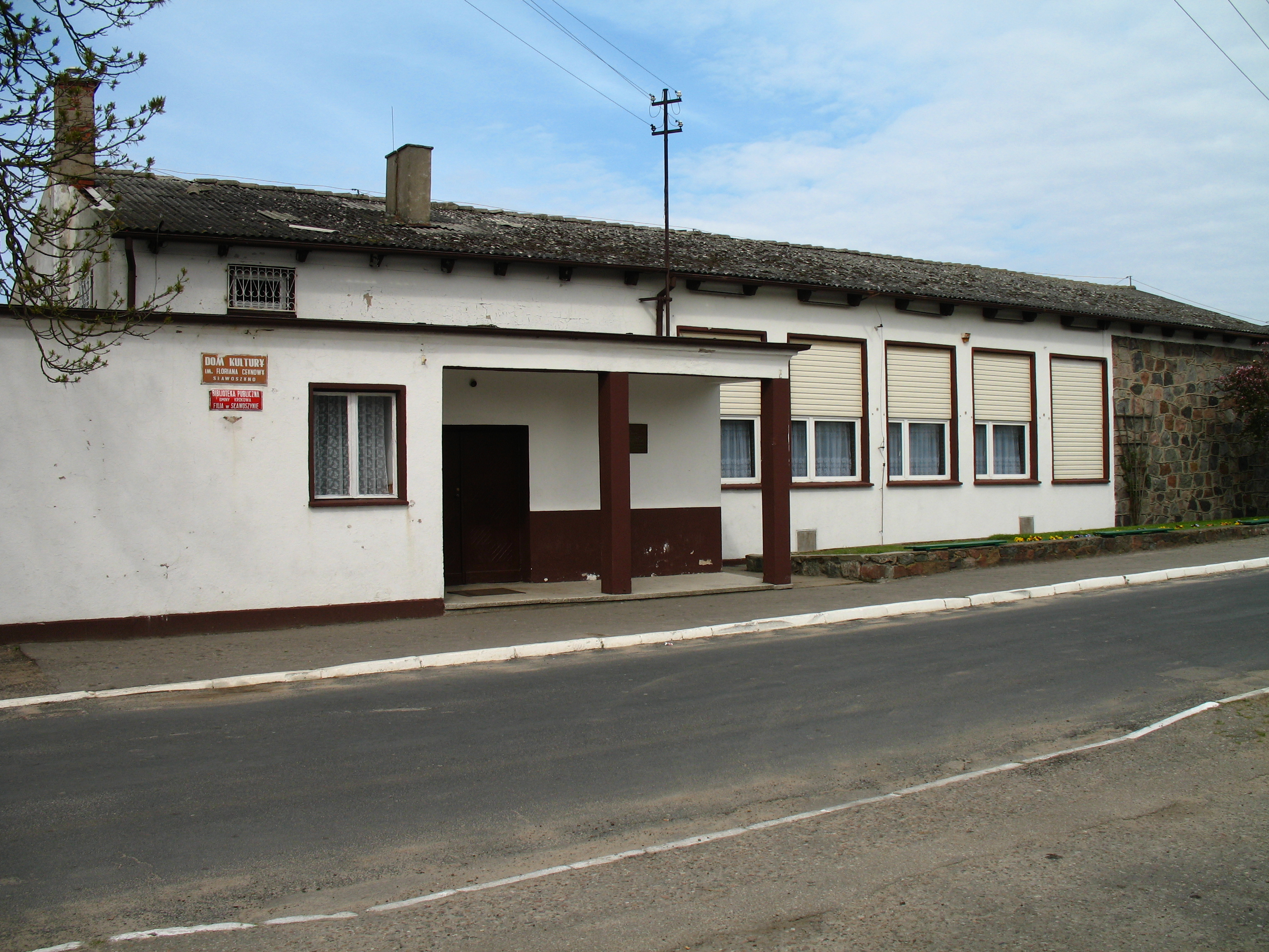 Dom kultury and public library in Sławoszyno, Poland.